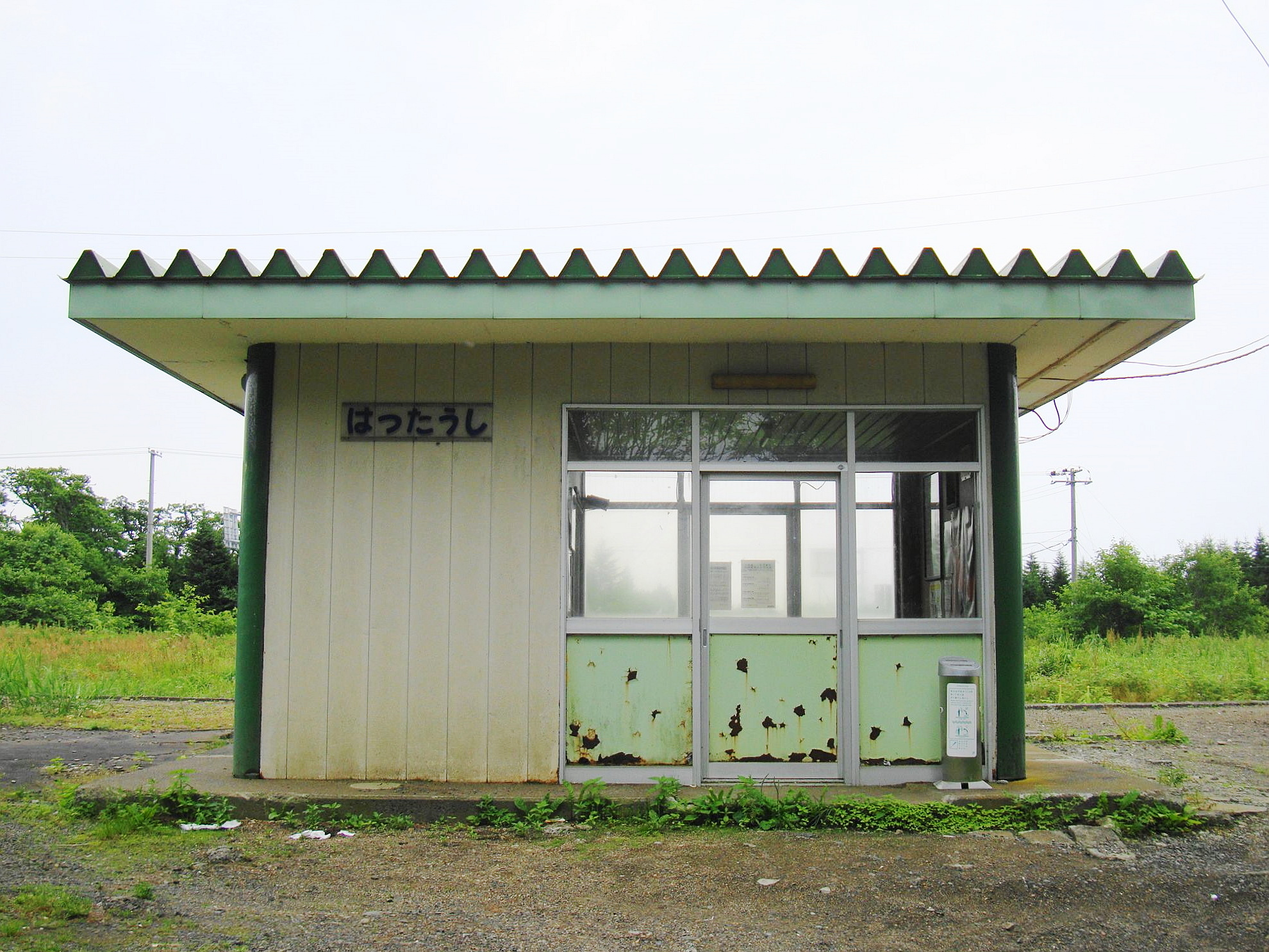 Hattaushi Station